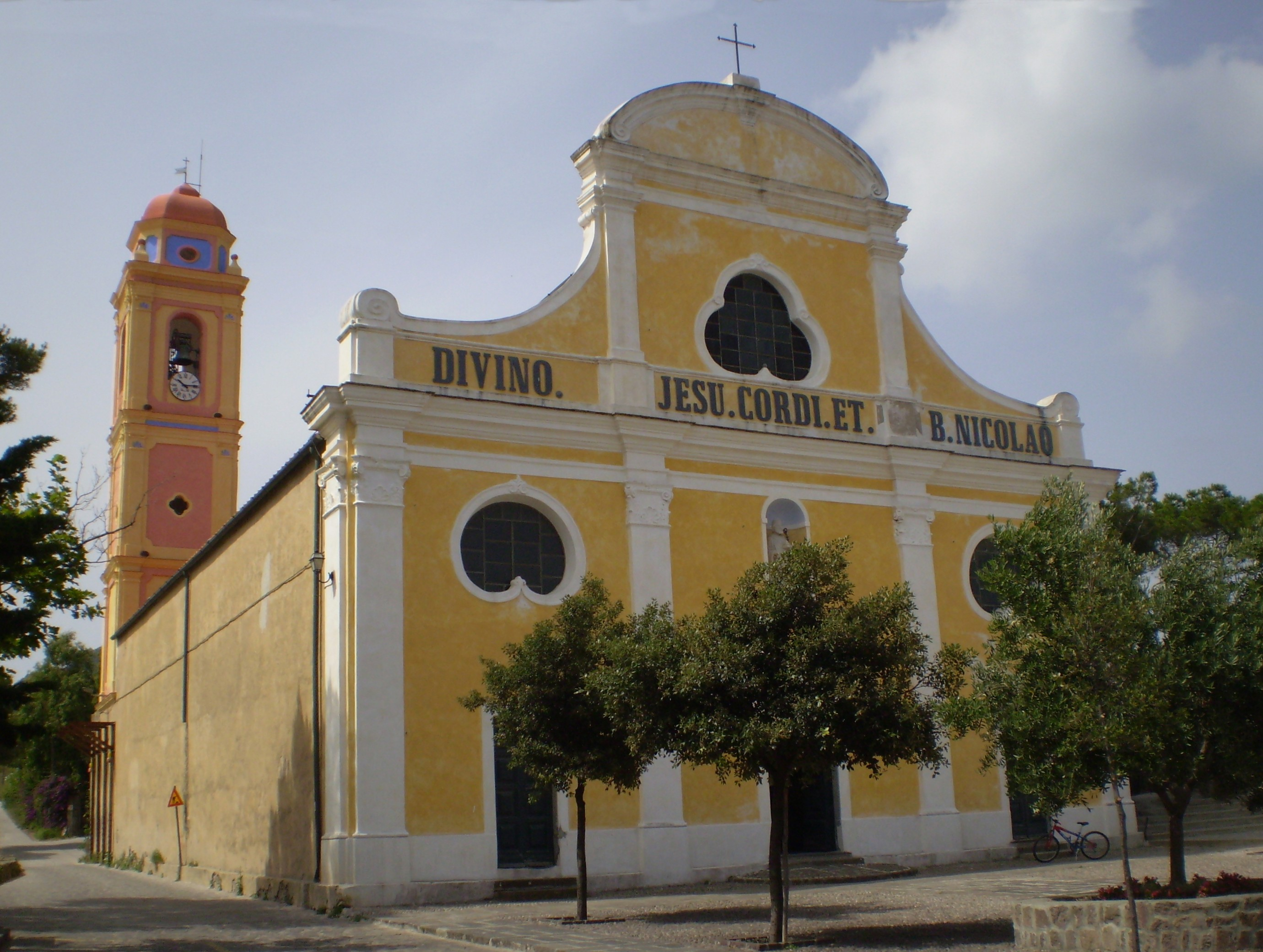 Chiesa San Nicola, Capraia, Tuscany, Italy.